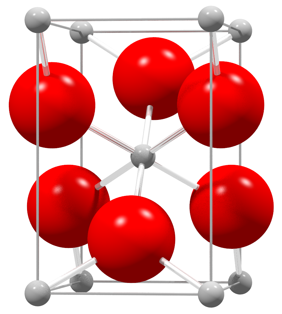 Stishovite Structure, Am. Min. Vol 75, p 739-747, 1990 N. L. Ross et al, High-pressure crystal chemistry of stihovite